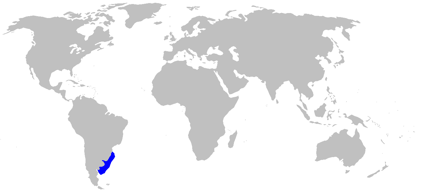 Distribution map for Mustelus fasciatus